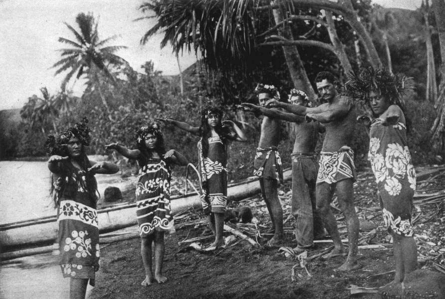 Marquesans dressed in pāreu performing a haka dance - not to be confused with the New Zealand Māori dance form of the same name.